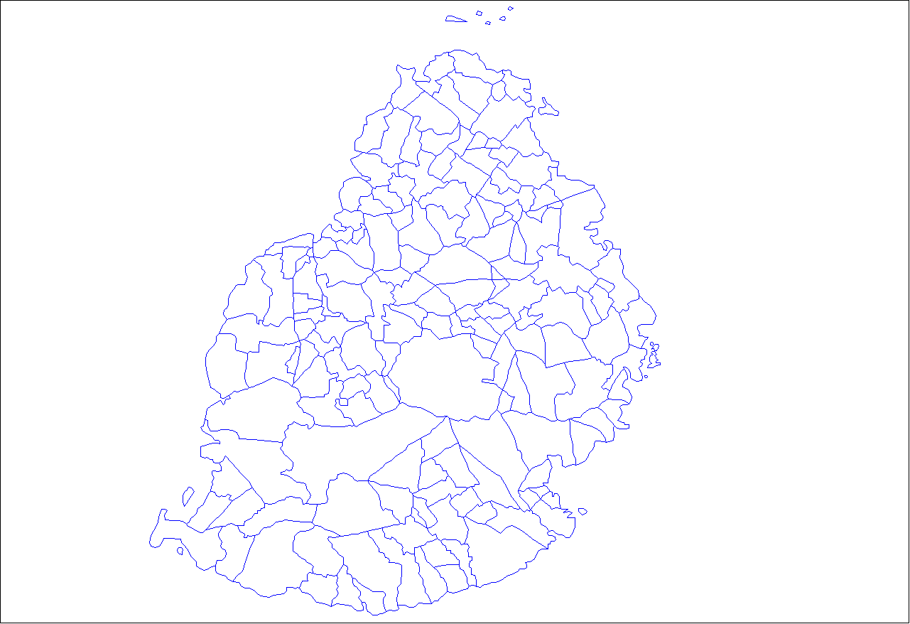 Map of the municipalities of Mauritius. Created by Rarelibra 19:48, 8 May 2007 (UTC) for public domain use, using MapInfo Professional v8.5 and various mapping resources.